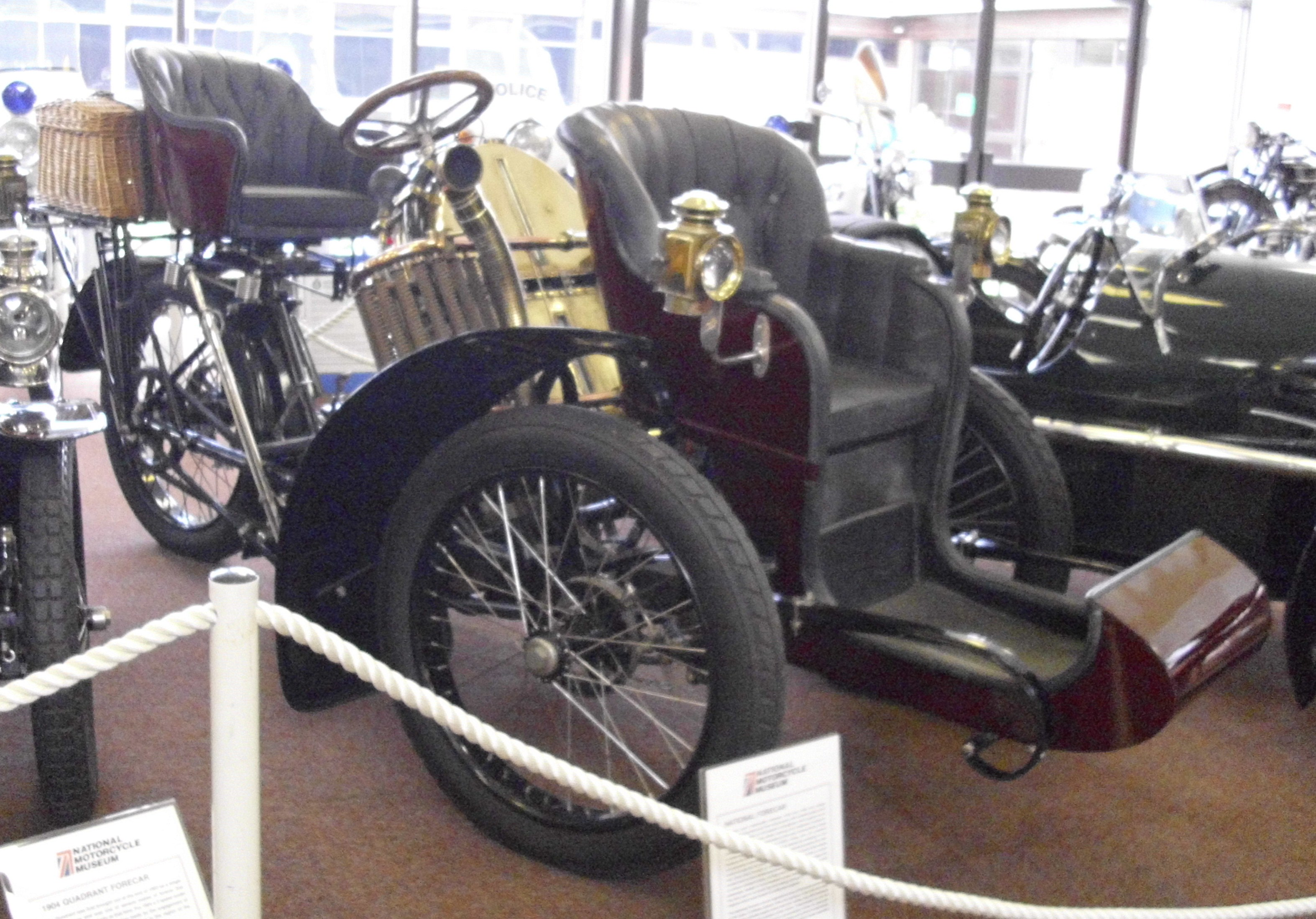 National Forecar